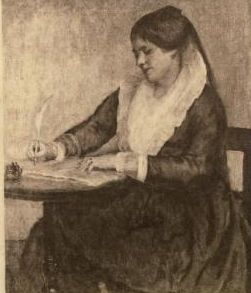 Anne Gilchrist, her life and writings (1887) Edited by Herbert Harlakenden Gilchrist, with a prefatory notice by William Michael Rossetti [1] Photogravure from a painting by her son, made in 1882